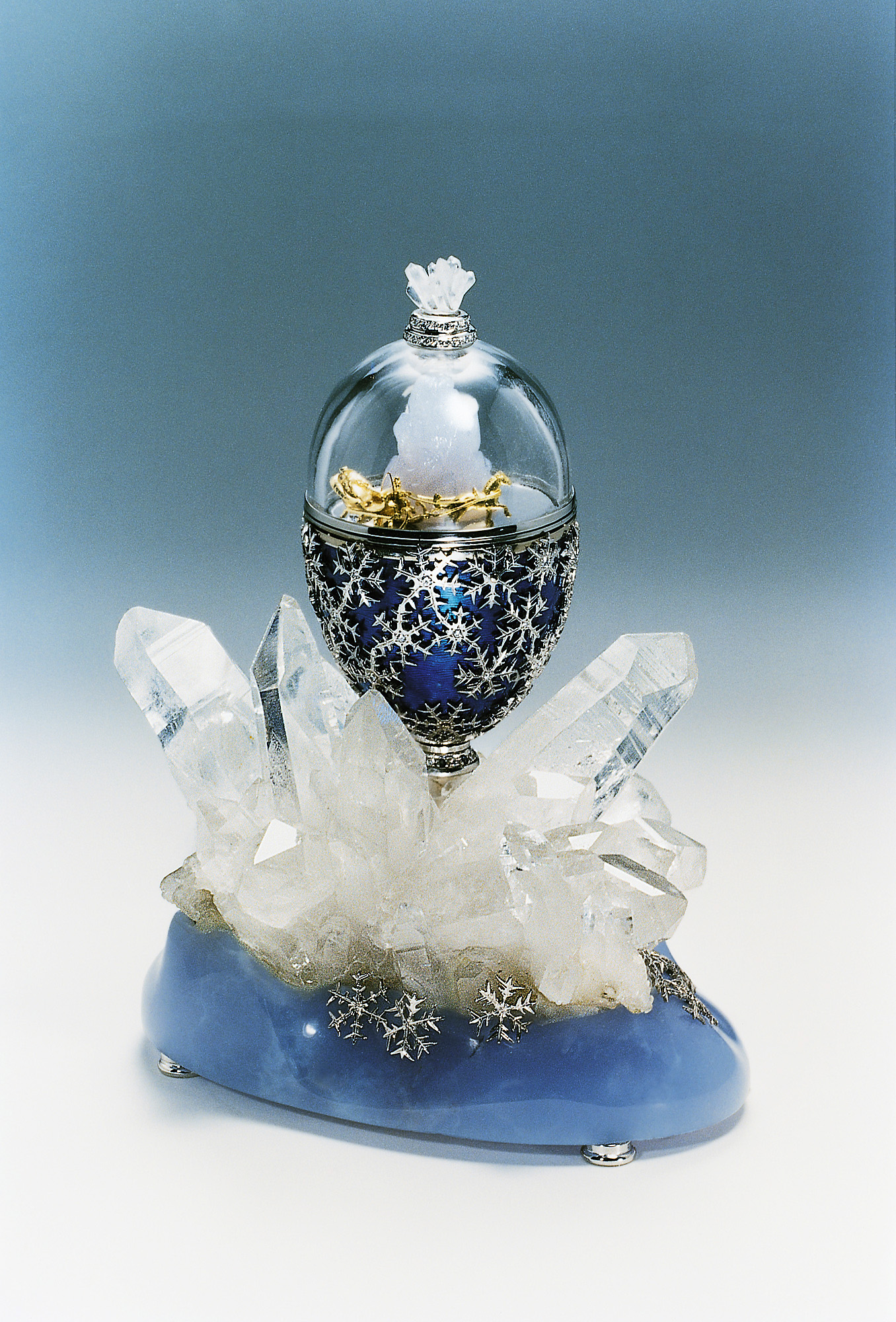 Fabergé Winter-Egg, made by Victor Mayer in Pforzheim/Germany in 1997